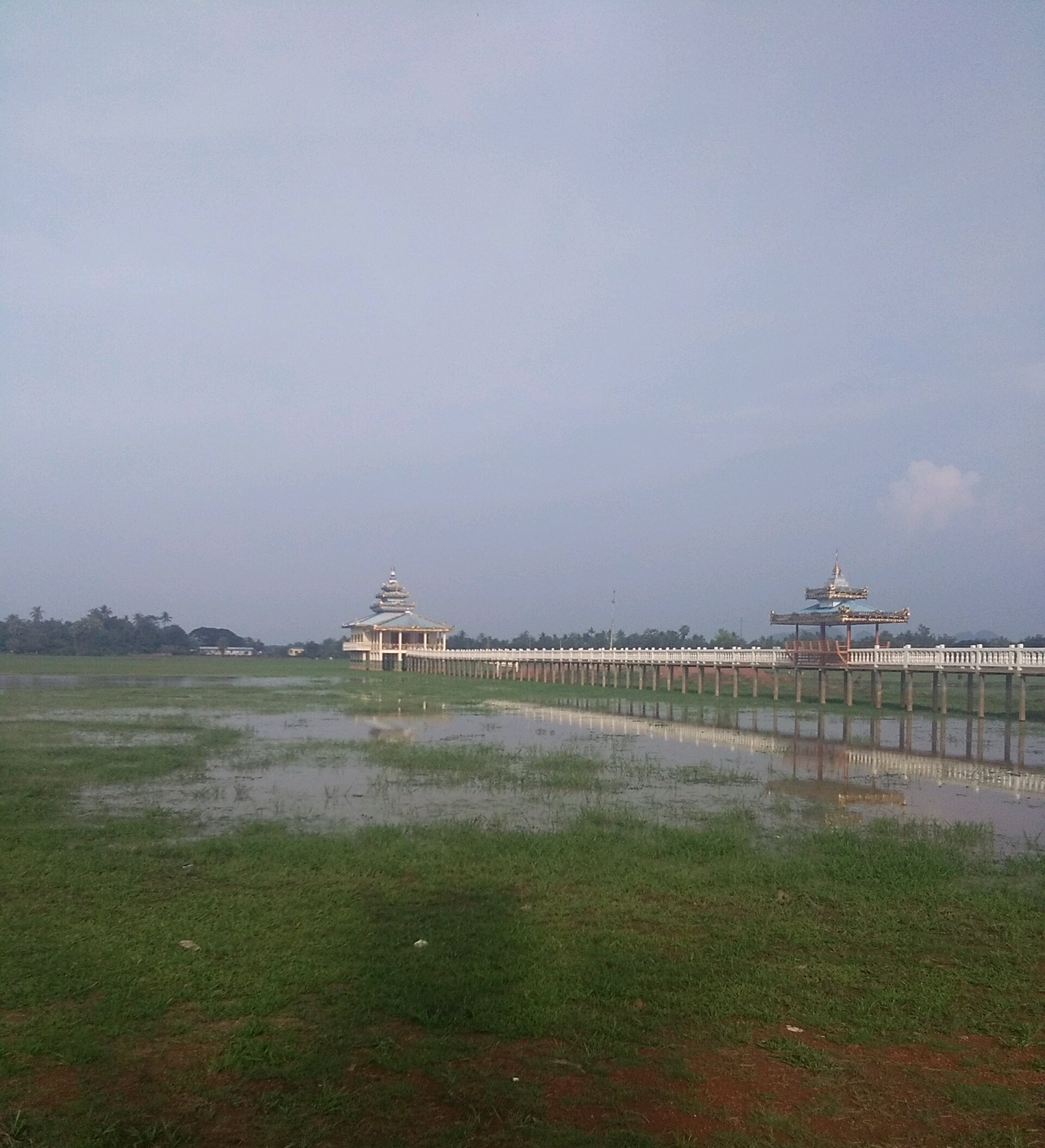 Tagondaingordinationhall